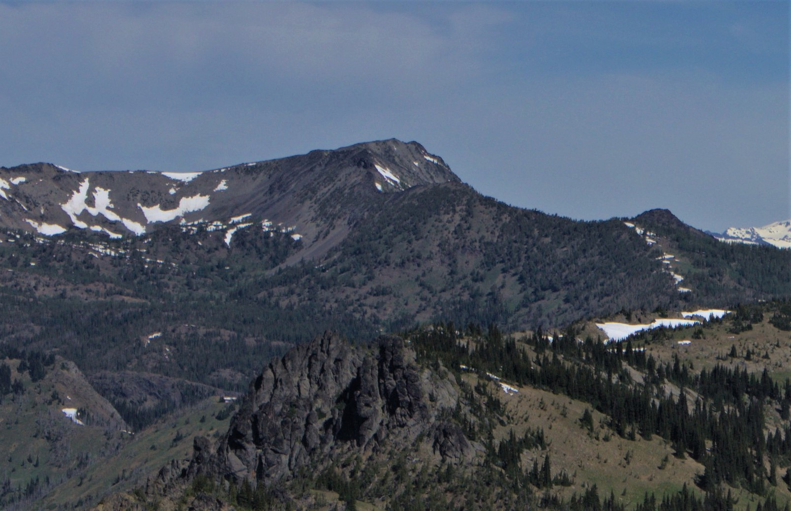 Big Jim Mountain southeast aspect